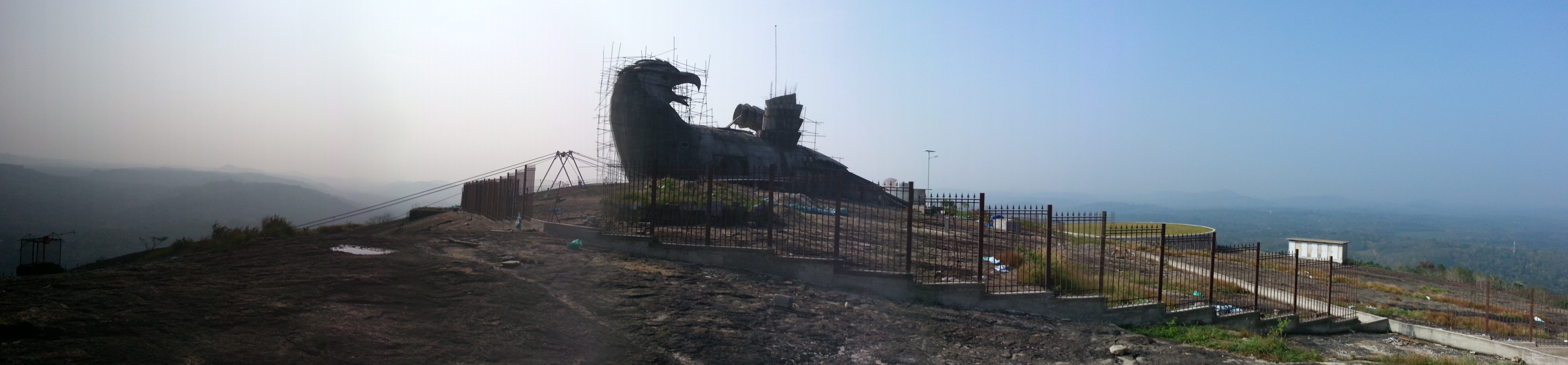 Jatayu Sculpture under construction as on Dec 2013 atop rock at Chadayamangalam, Kerala, India